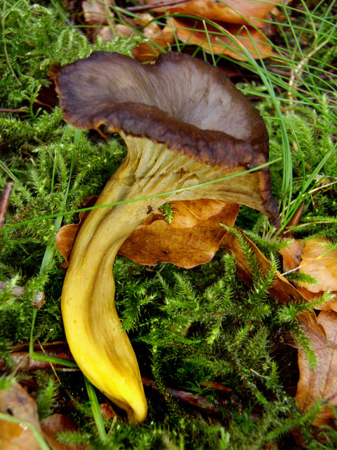 Cantharellus infundibuliformis This was the last reasonable specimen of a large troop of these fungi, the rest of which were now rotting away in the November rain.